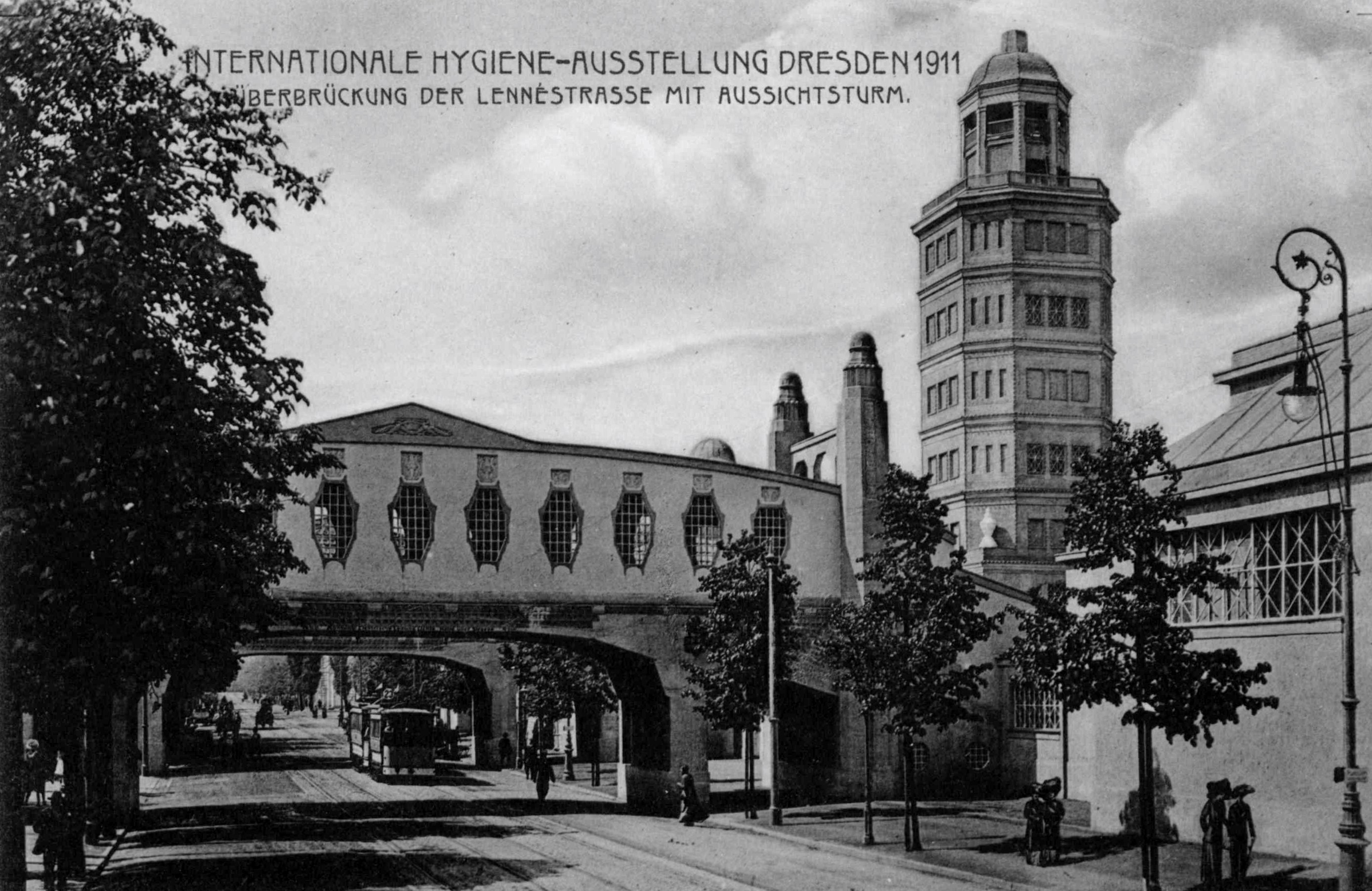 International Hygiene Exhibition Dresden 1911 (bridge and power station/tower).